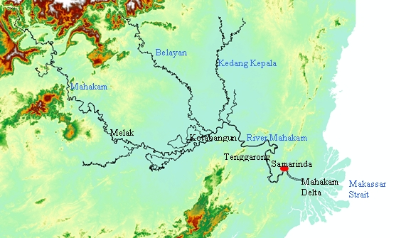 mahakam map